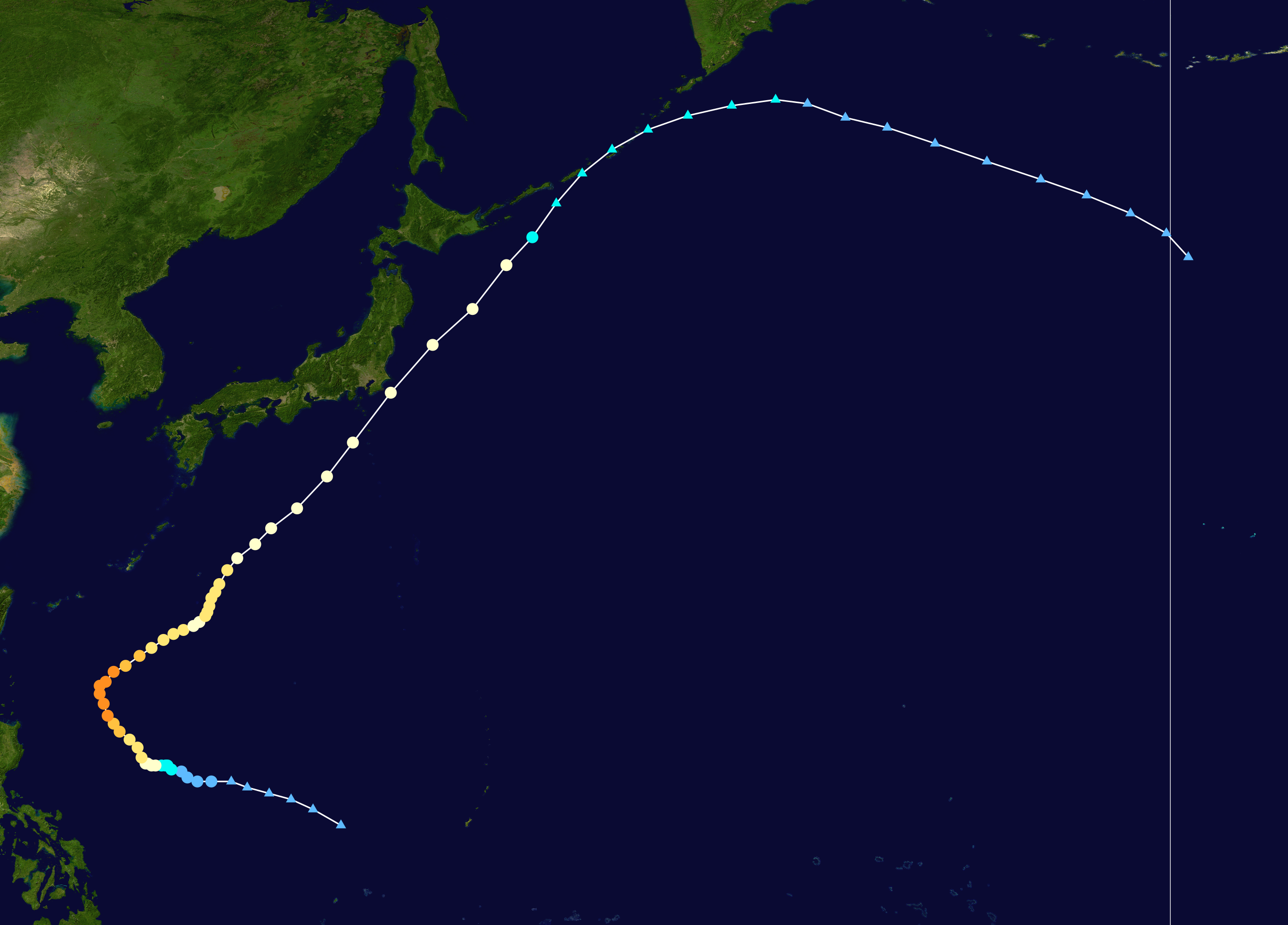 Typhoon Violet 1996 track. Uses the color scheme from the Saffir-Simpson Hurricane Scale.